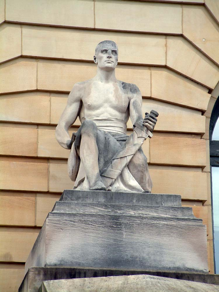 I took the picture of a 1909 statue